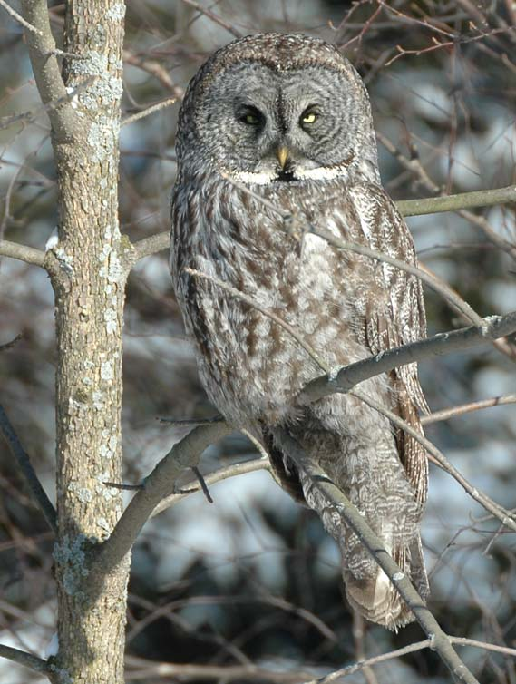 Great Grey Owl (Strix nebulosa) venturing further south than usual in the Winter of 2004/2005; Whitby, Ontario, Canada